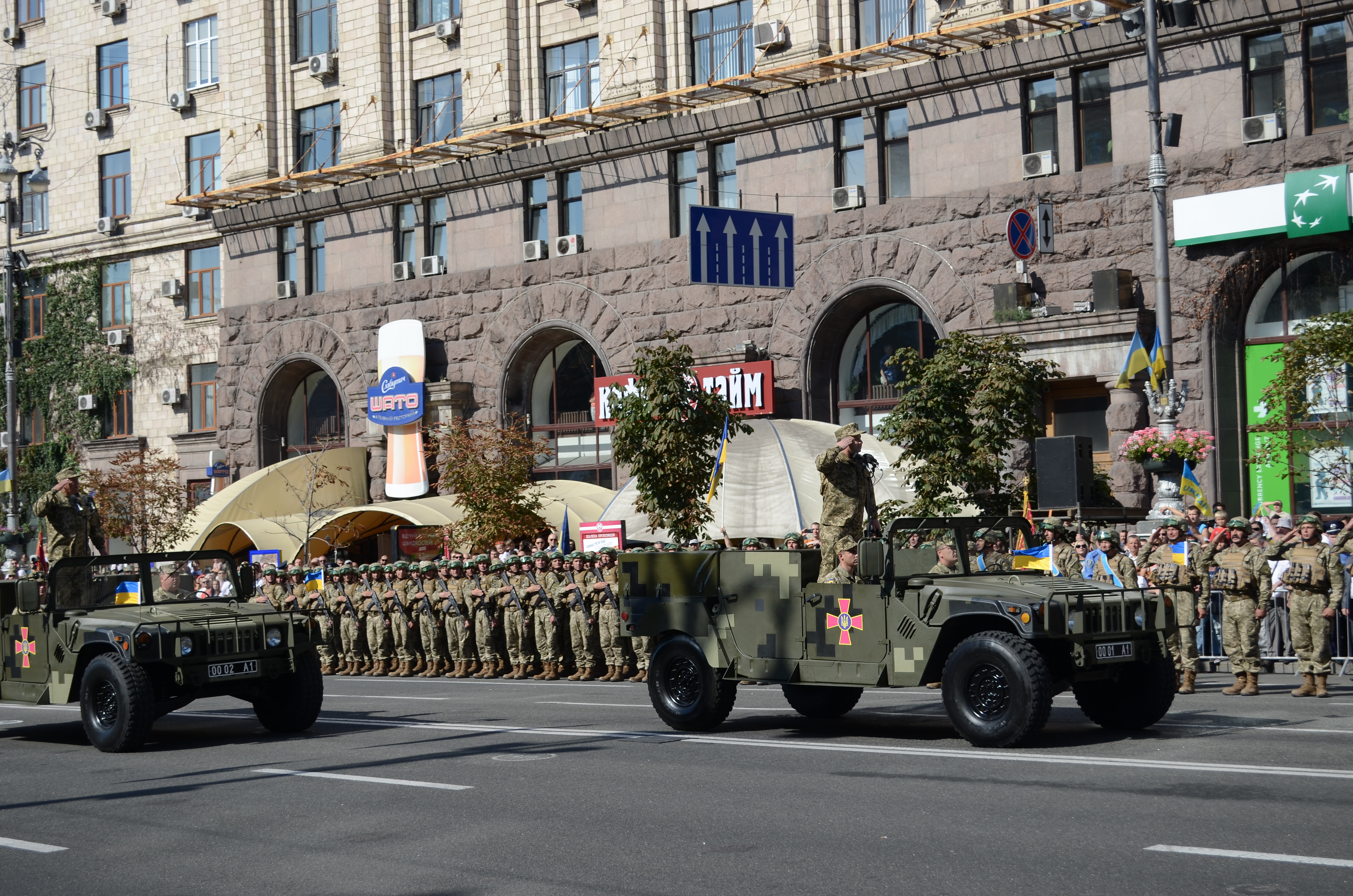 The car Humvee on parade in Kiev. 24.08.2015